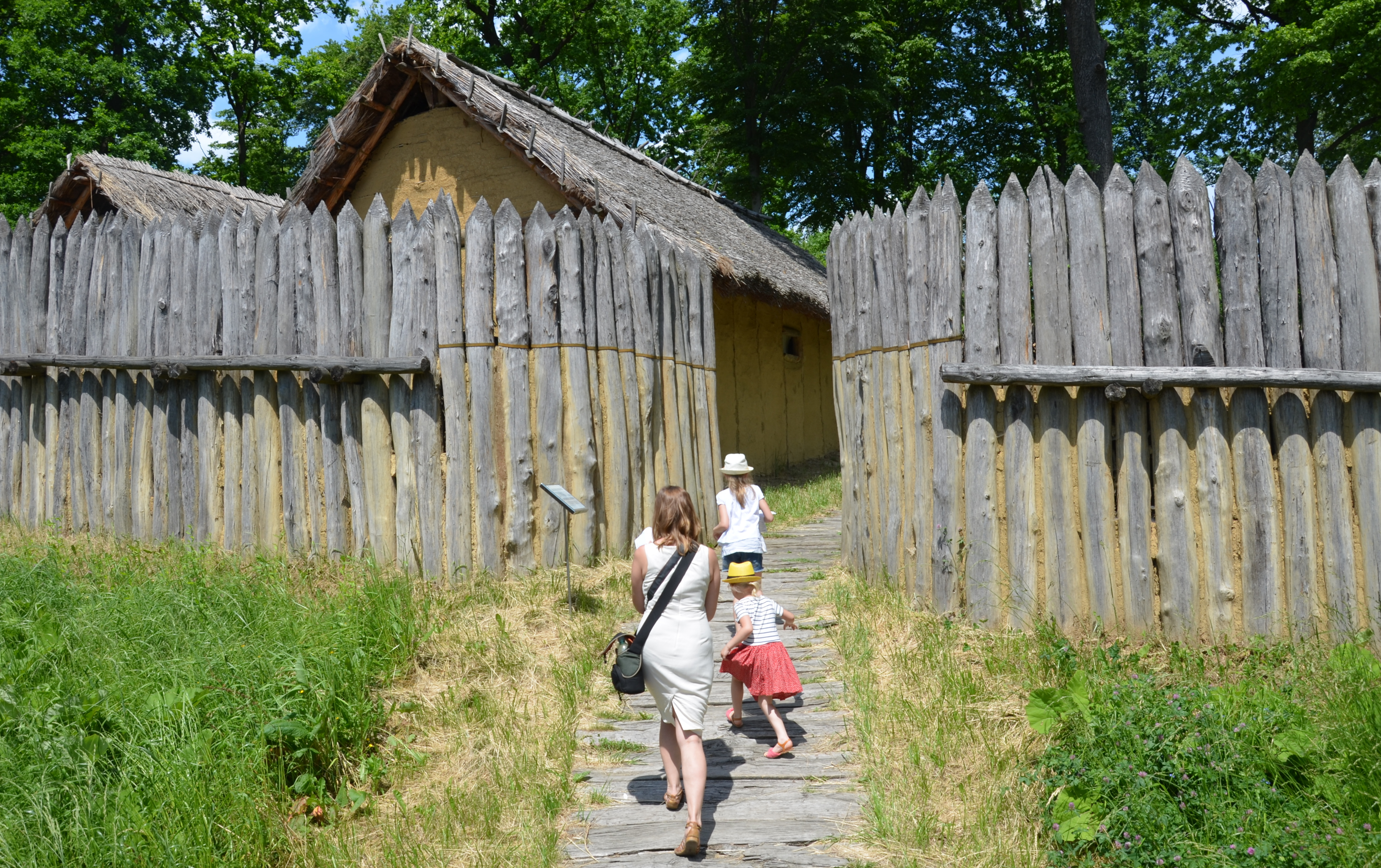 Strech of the Otomani-Fuzesabony earhwork, road and gatehouse